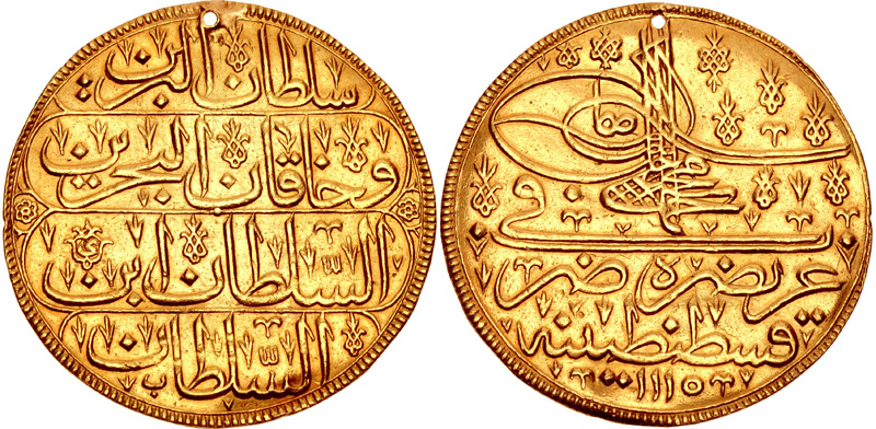 SLAMIC, Ottoman Empire. Ahmad III. AH 1115-1143 / AD 1703-1730. AV Beşlik Altın (43mm, 16.66 g, 12h). Qustantiniya (Constantinople) mint. Dated AH 1115 (AD 1703). sultan al-barain wa khaqan al-bahrain al-sultan ibn al-sultan (Sultan of the two lands and Khaqan of the two seas, the Sultan, son of the Sultan) in Arabic on ornate field within four linear lozenges; flowers framing end of two largest; all within circular linear and dentiled border; ba below nun of final al-sultan / Large tughra on ornate field; below, zarb qustantiniya fi 1115 az nasrah (Struck Qustantiniya [Constantinople] in 1327 may his victory be glorious) in Arabic; all within circular linear and dentiled border. Sultan –; Pere 504 var. (initial letter; example set in mount); KM 182 (initial letter not listed); Friedberg 5. VF, lightly toned, holed for suspension.